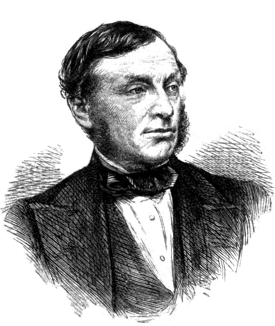 Portrait of Daniel Gooch (1816–1889), Telegraph Construction & Maintenance Company (Telcon) chief engineer.